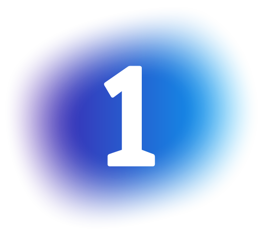 Logo of TVE1 since 2008.